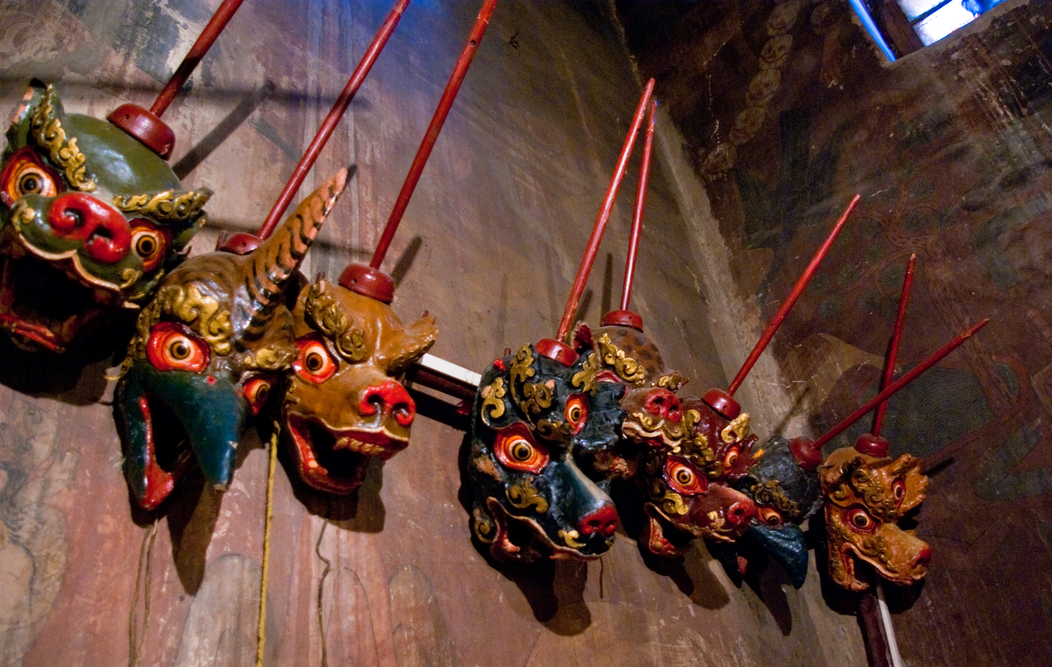 Monastery of Gyantse